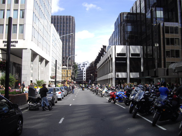 Motorcycles protest in Victoria Street These motorcyclists were protesting about the proposed parking charges to be implemented in Westminster-the police blocked off the road to prevent other road users travelling down the street